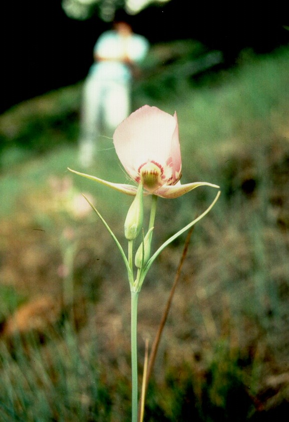 Calochortus nitidus, Clearwater National Forest, USA